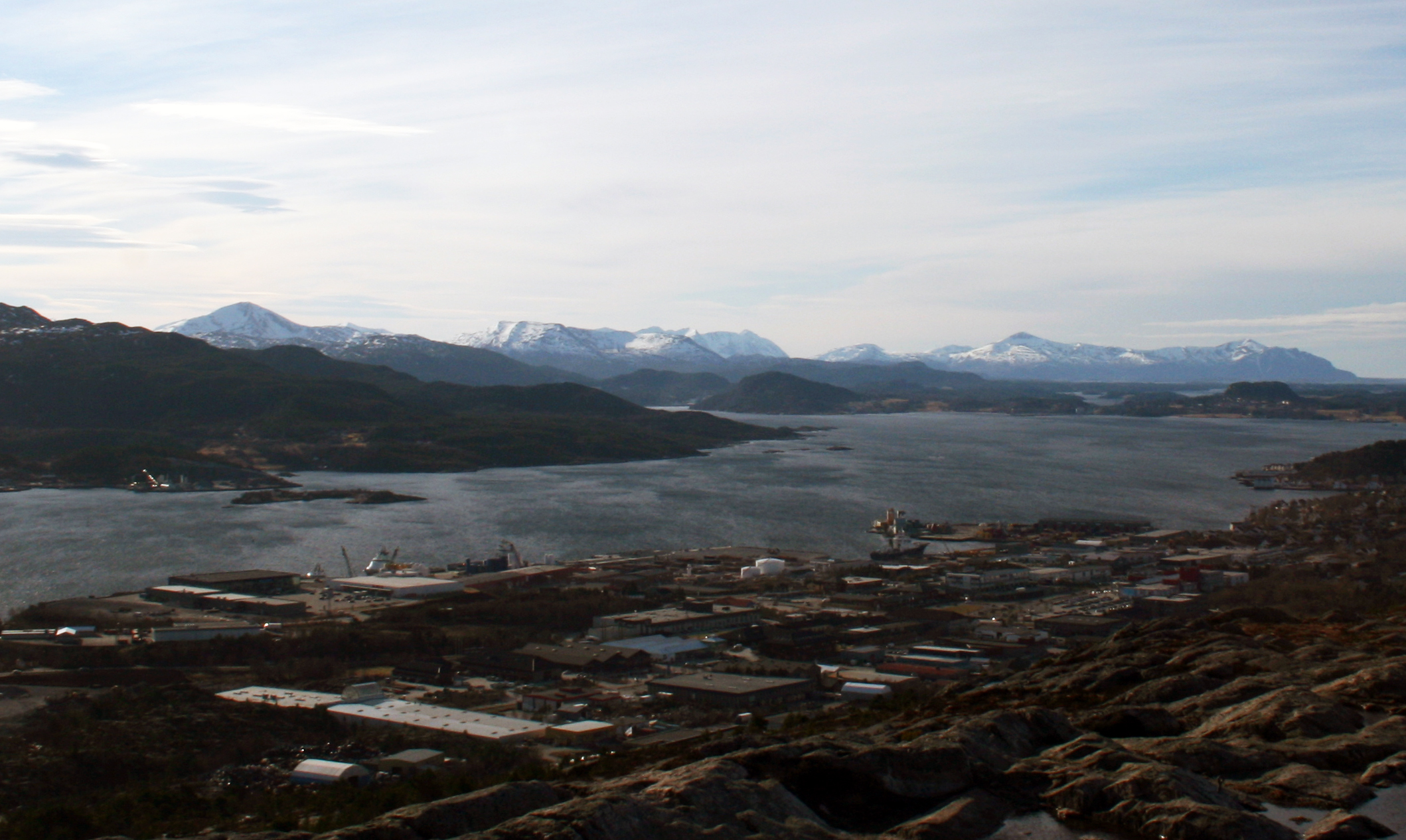 Løkkemyra industrial area, Kristiansund.